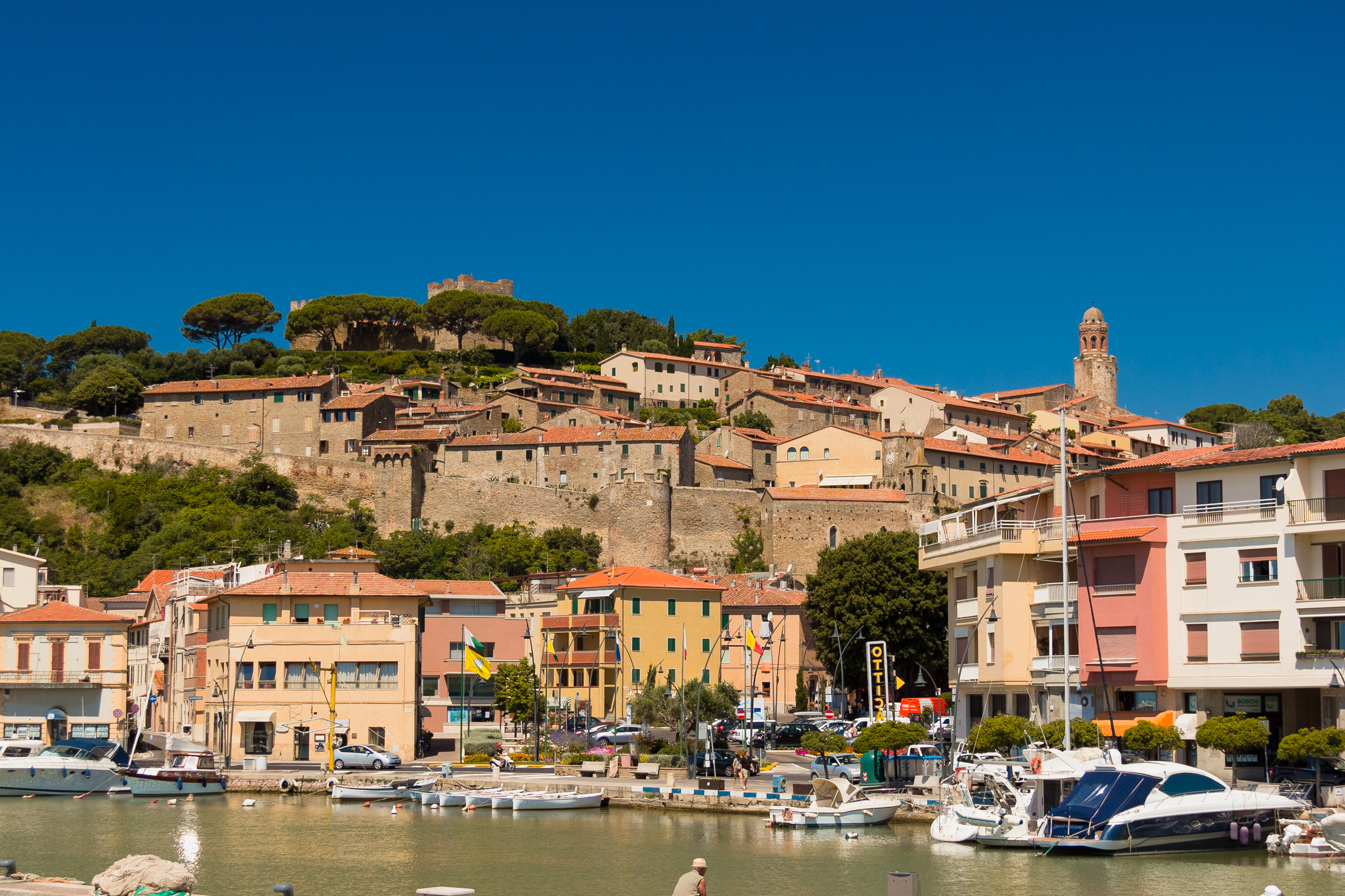 Canon EOS 60D, Canon EF-S 18-200mm ; 1/400 sec, f/7.1, ISO 200